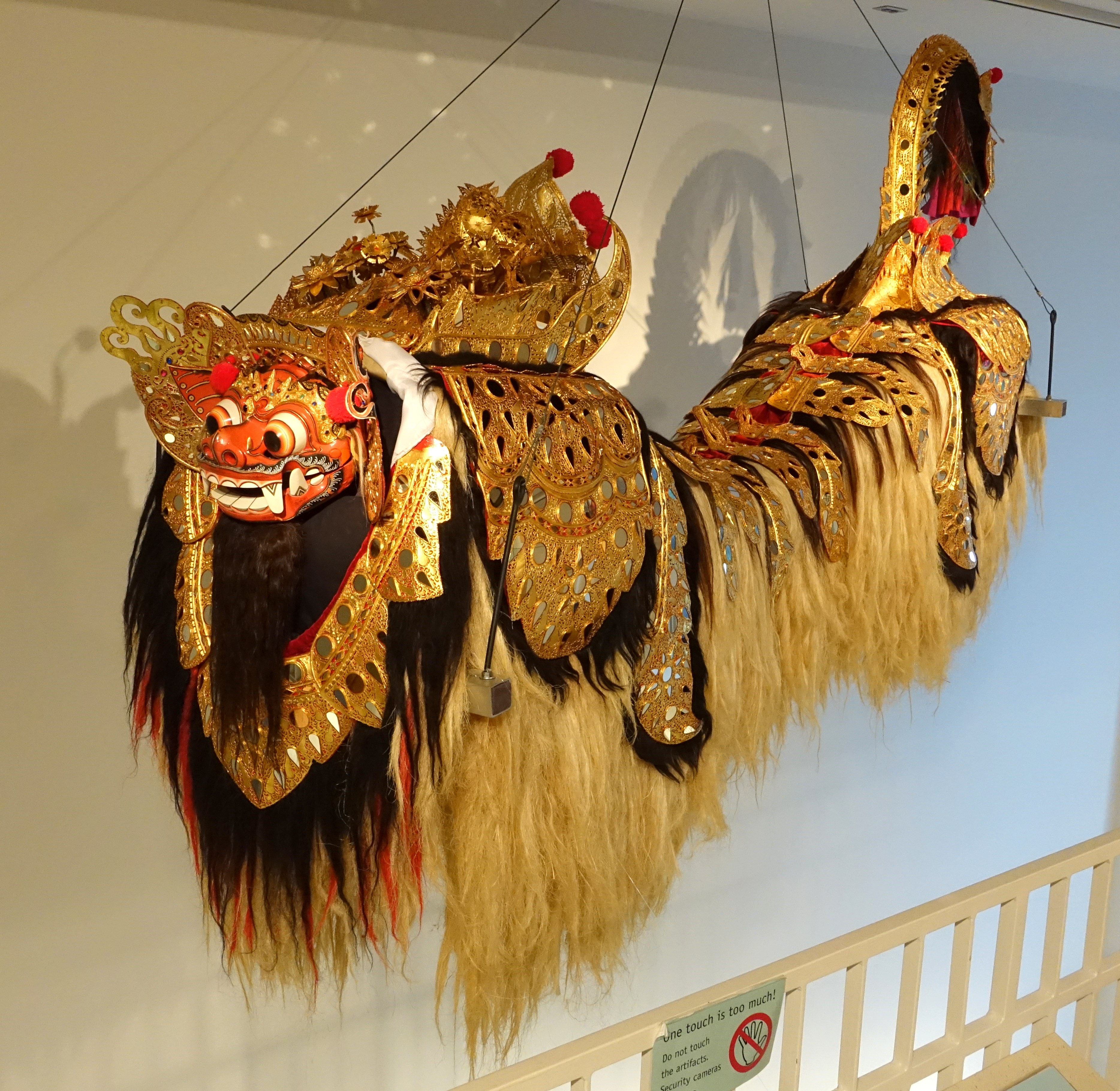 Exhibit in the Spurlock Museum, University of Illinois at Urbana-Champaign - Urbana-Champaign, Illinois, USA. This work is old enough so that it is in the public domain.